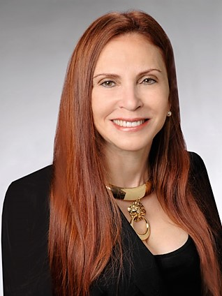 A portrait photo of author Donna Levin.